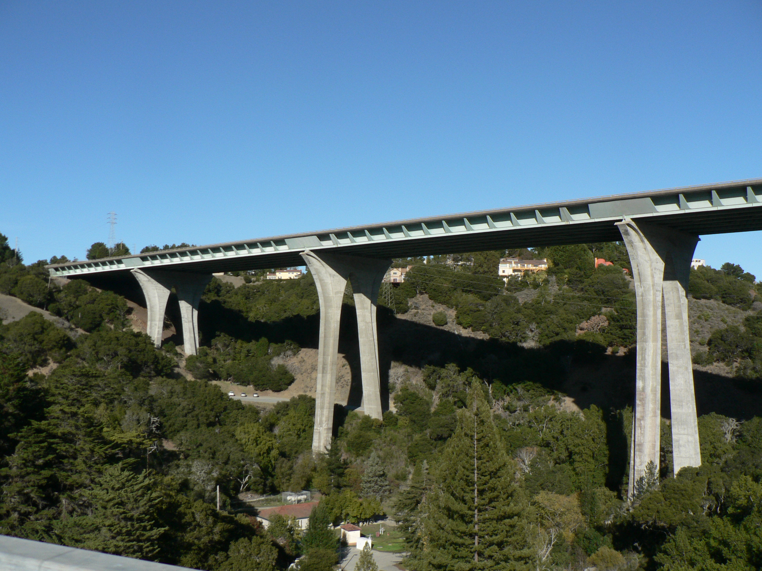 Giant legs astride the valley with cars on their shoulders.